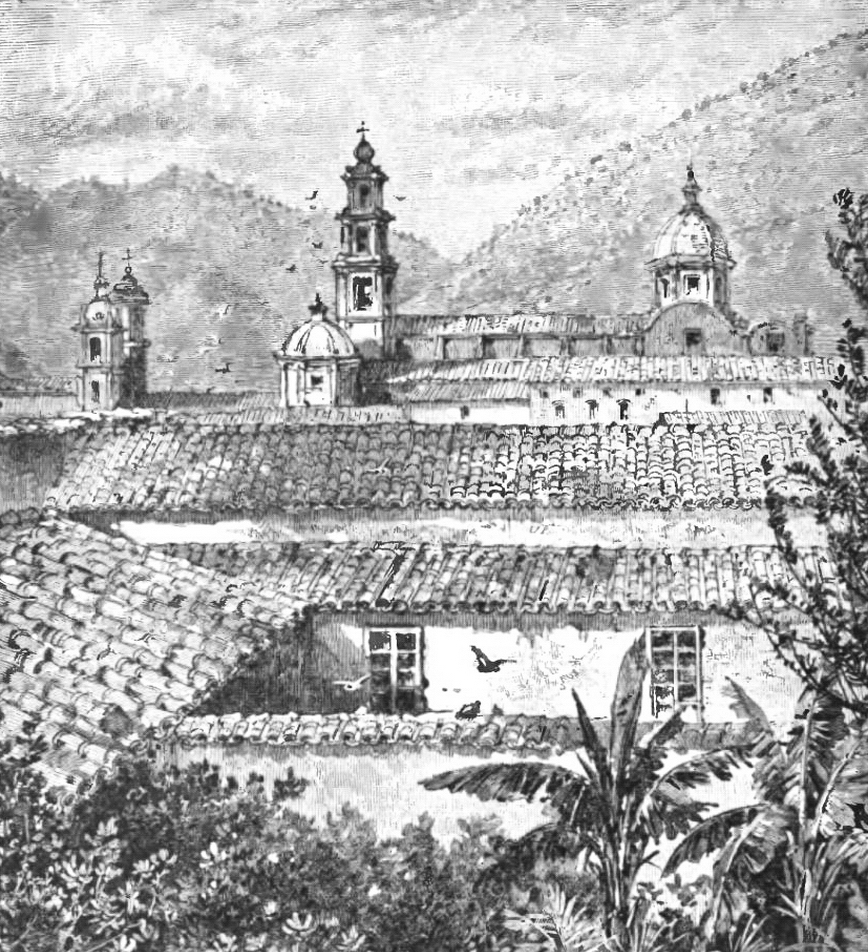 Mexico, California and Arizona; being a new and revised edition of Old Mexico and her lost provinces (1900).